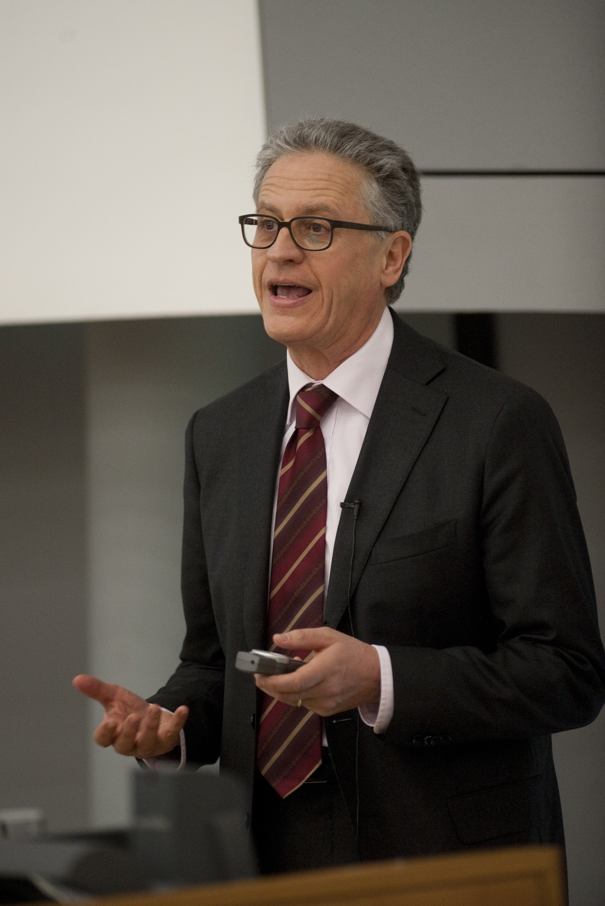 Thomas Stocker, presenting during the Working Group I session of the IPCC.